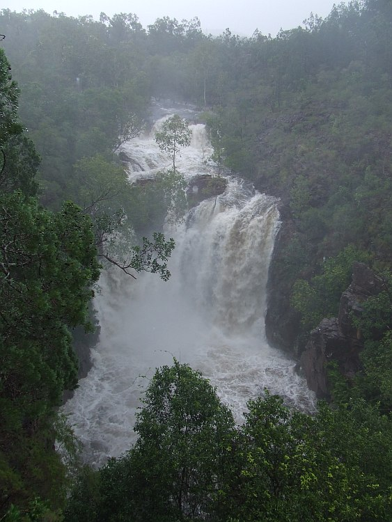 Florence Falls in the Wet Season. Litchfield National Park, Northern Territory